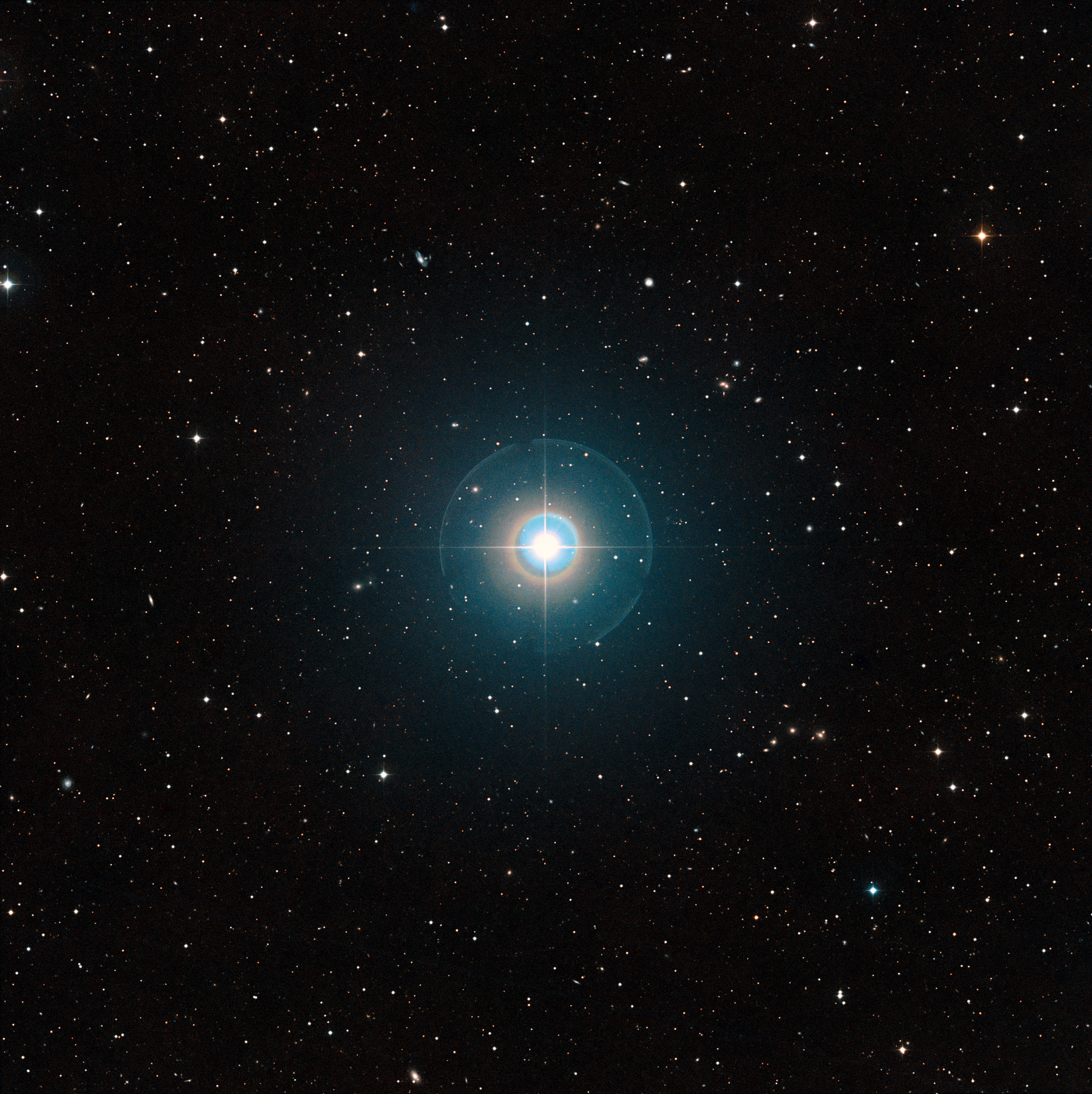 This image of the sky around the star Tau Boötis was created from the Digitized Sky Survey 2 images. The star itself, which is bright enough to be seen with the unaided eye, is at the centre. The spikes and coloured circles around it are artifacts of the telescope and photographic plate used and are not real. The exoplanet Tau Boötis b orbits very close to the star and is completely invisible in this picture. The planet has only just been detected directly from its own light using ESO's VLT.